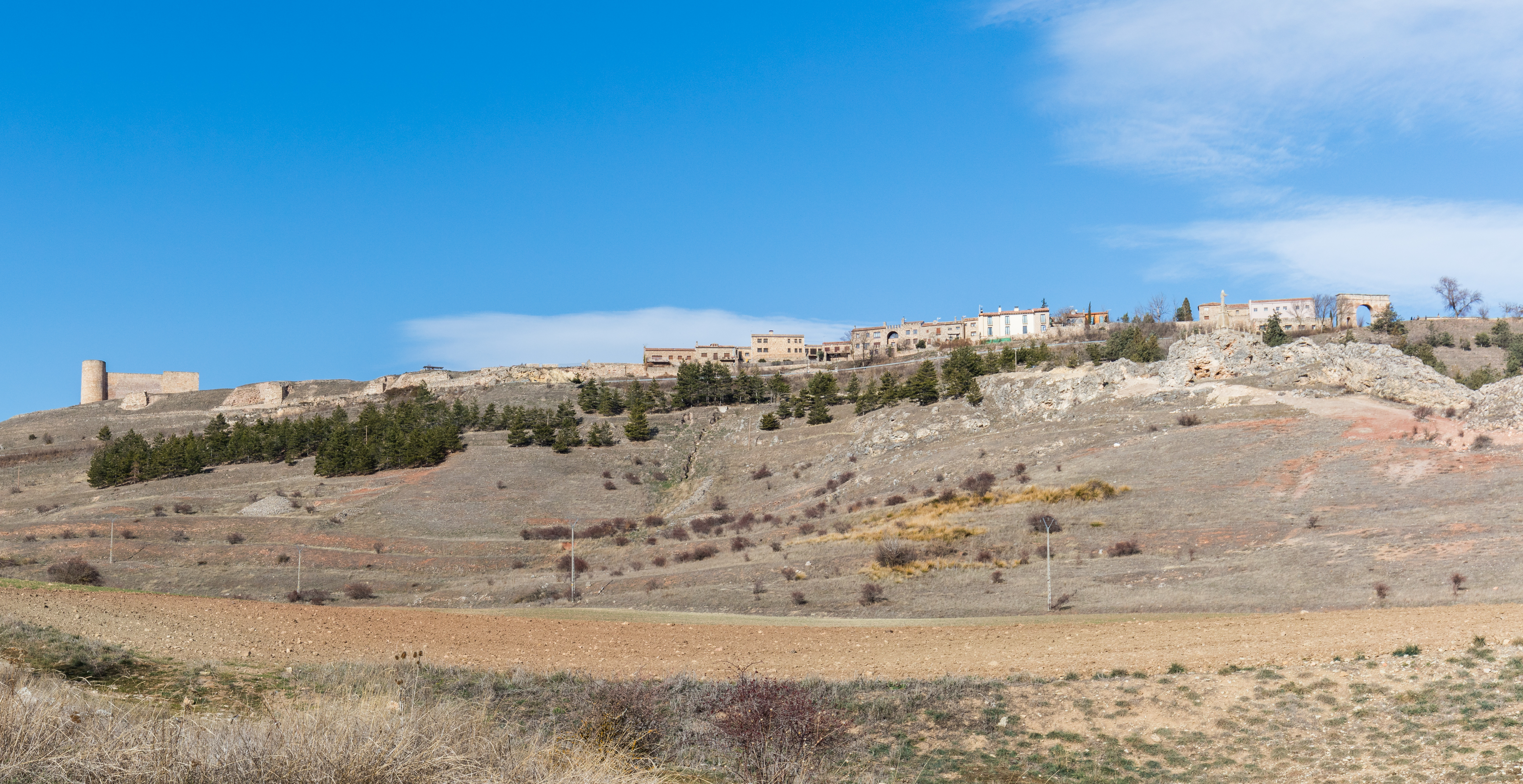 View of Medinaceli, Soria, Spain